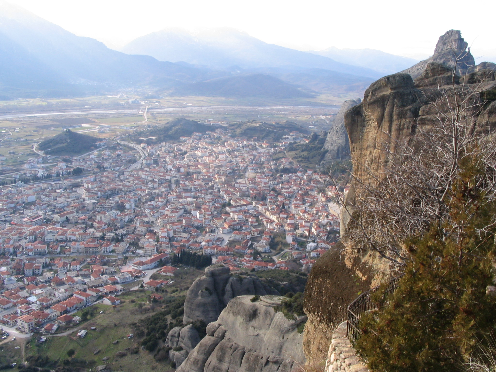 View of the town of Kalambaka from Meteora